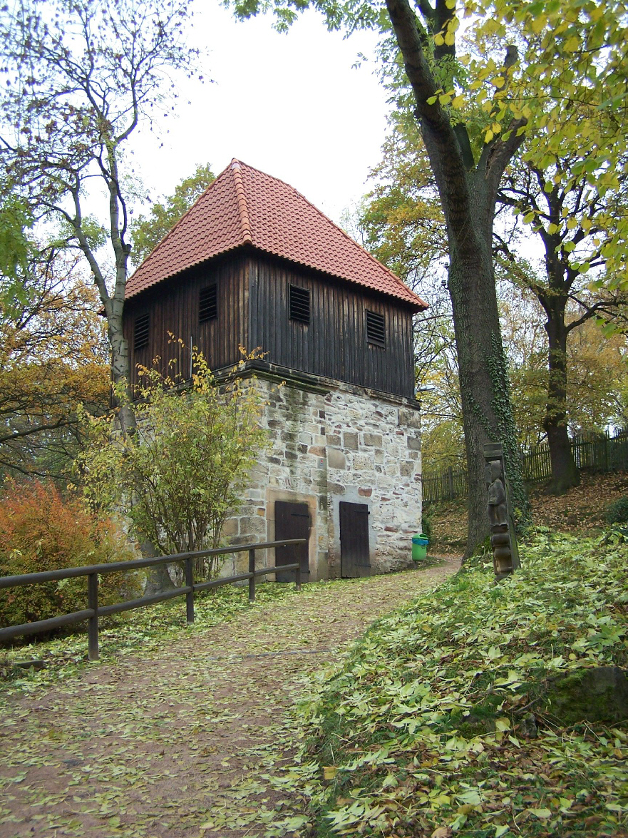 The bell-tower in Farnroda near the church.